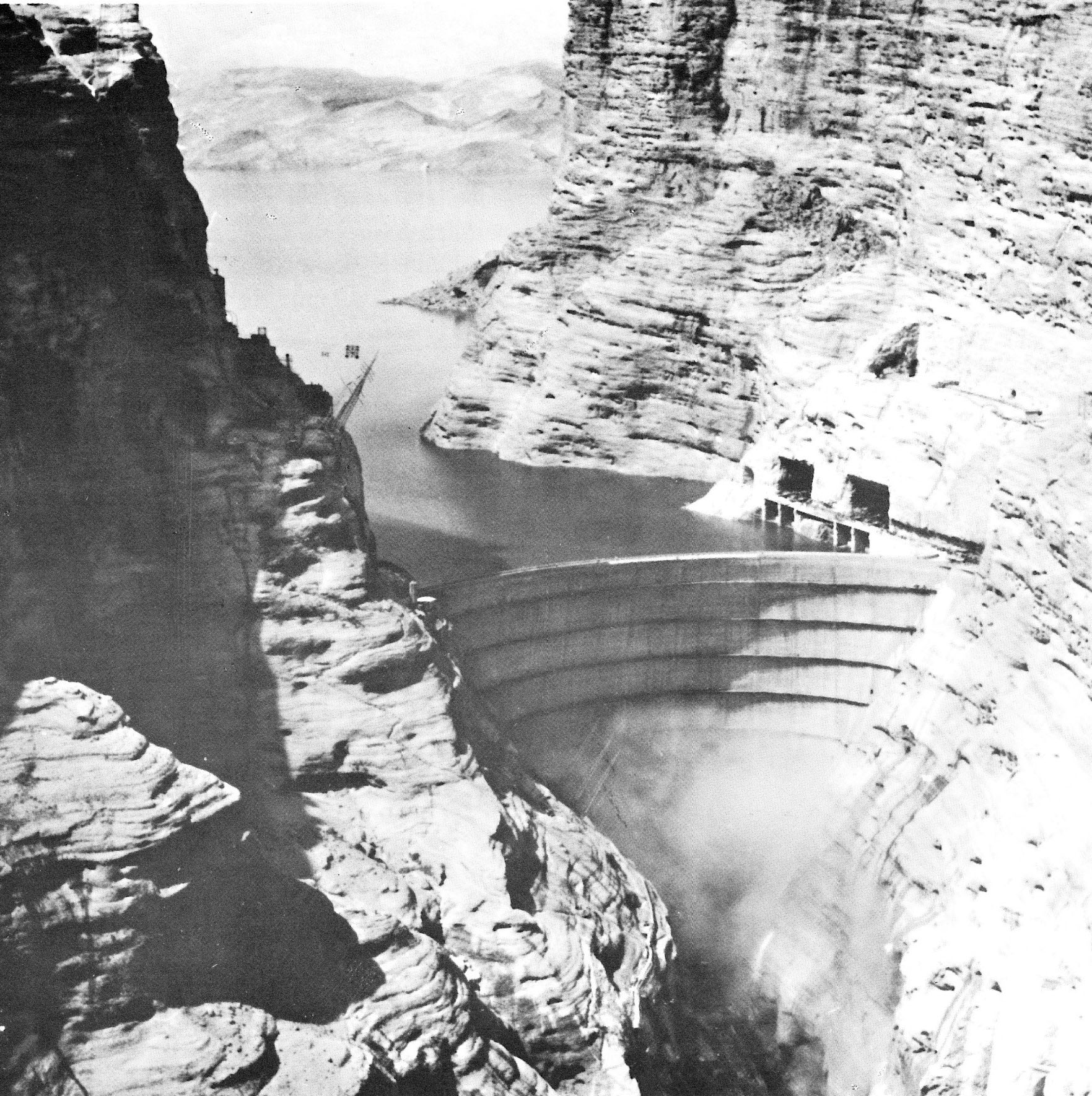 Dez Dam, Iran